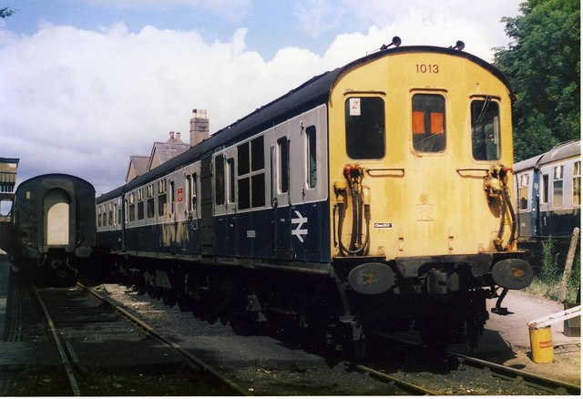 The Hampshire Hog Railtour.The Unit Number 1013, has arrived at Alresford on 20th July 1985 and is the first passenger train to visit the Mid-Hants. Railway since the line was re-opened by the volunteers in 1977.